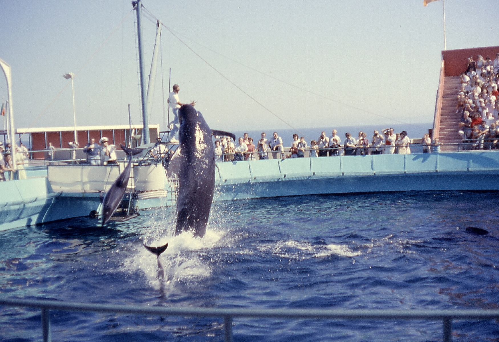 A pilot whale and Dolphins performing at Marineland of the Pacific. August, 1962